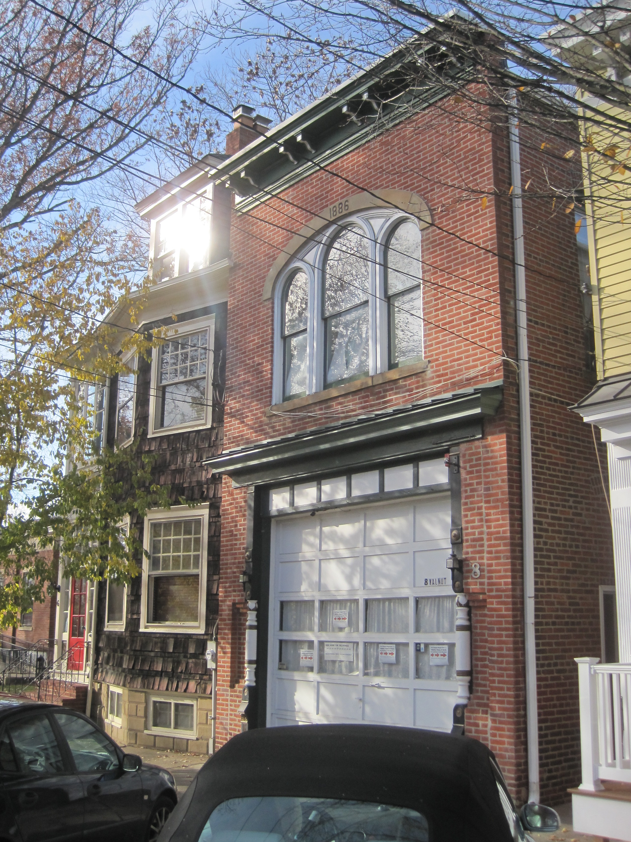 Photo showing the front of Firehouse Gallery located at 8 Walnut Street, Bordentown, New Jersey.